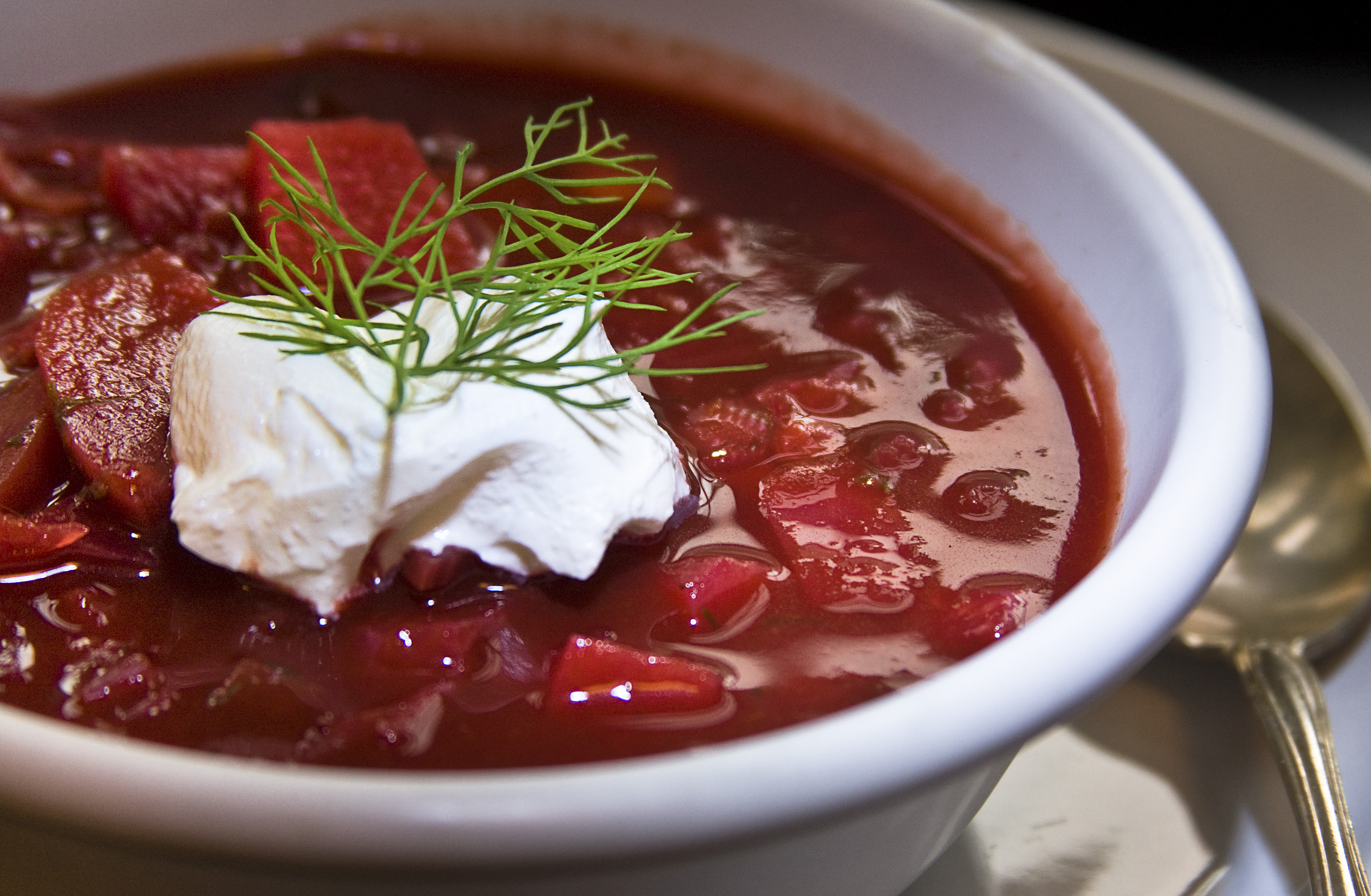 Borscht can be served hot or cold. It is usually served with sour cream and sometimes dill.